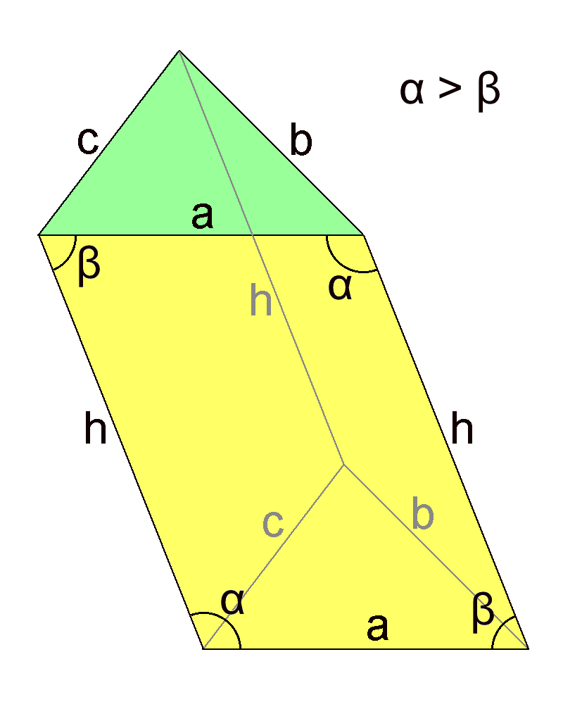 oblique triangular prism